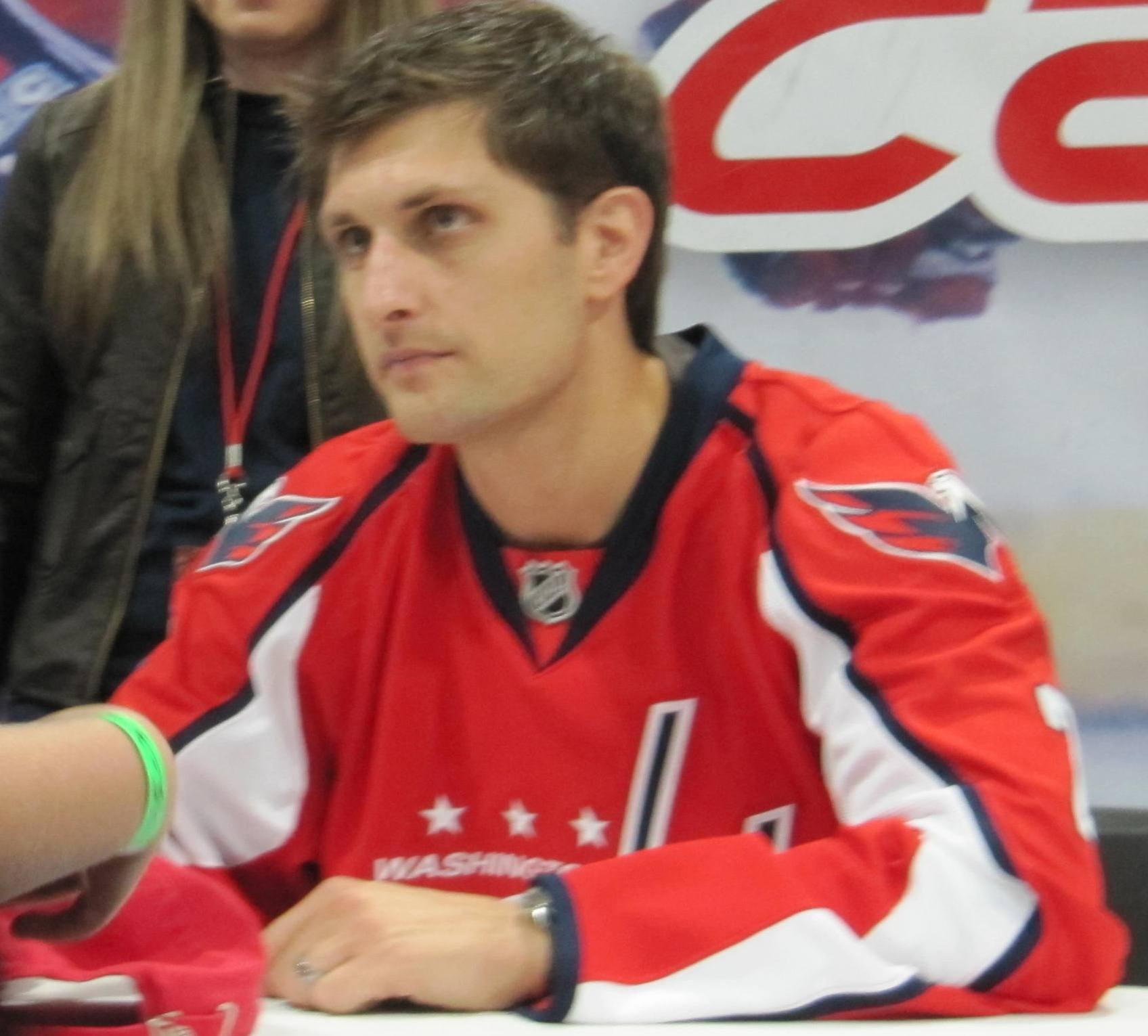 Brian Pothier, Washington Capitals during an autograph session in 2009.